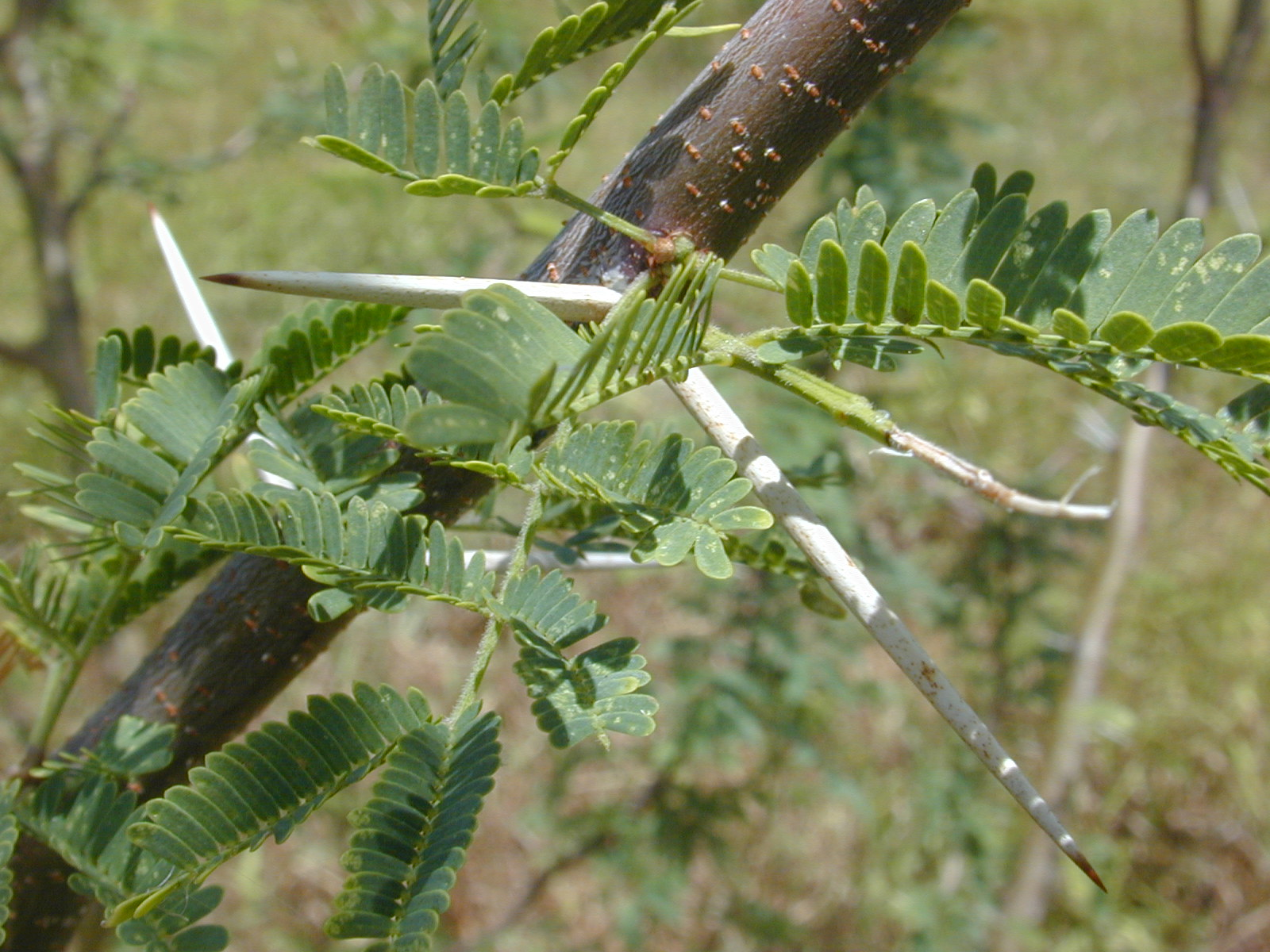 Spines on Prosopis pallida (mesquite tree) in Hawai‘i